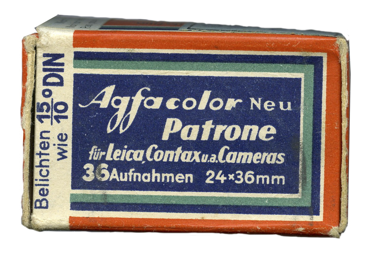 Colour photography was made accessible to a greater audience in the last half of the 1930s. The companies Kodak (USA) and Agfa (Germany) competed in becoming the first to launch a method that would make colour photography with slides easy and cheap to use. Kodak was first with their Kodachrome in 1935, and Agfa also patented their version in the same year, but the processing was very complicated. Agfa continued to work on their method, and in 1936 patented a colour film that was so easy to process that it could be made accessible to a large audience. This new film was marketed as Agfa Color Neu and was accessible in the German stores from late 1936. Agfa Color Neu was thereby the first commercially successful colour film, and when the patent was released after World War II, the method was used by other producers. Kodak, on the other hand, had developed their own technical solution in 1937.